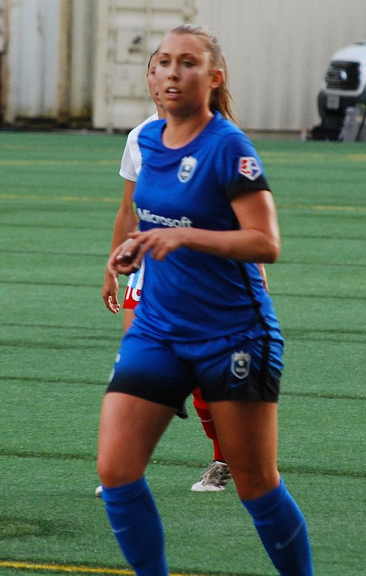 Elston during a match between Chicago Red Stars and Seattle Reign, June 28, 2017